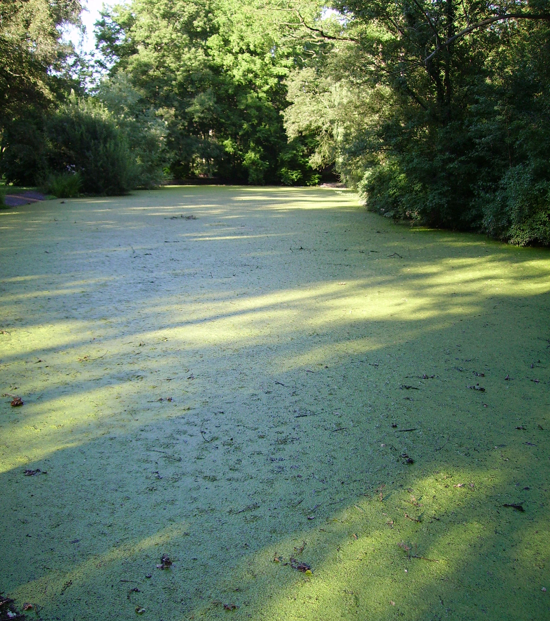 pond in Ludwigshafen, Germany